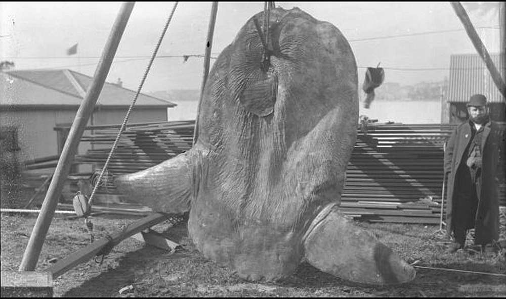 A Short Sunfish, Mola ramsayi, collected in Darling Harbour, Sydney Harbour, 12 December 1882. Source: Henry Barnes Snr / Australian Museum.